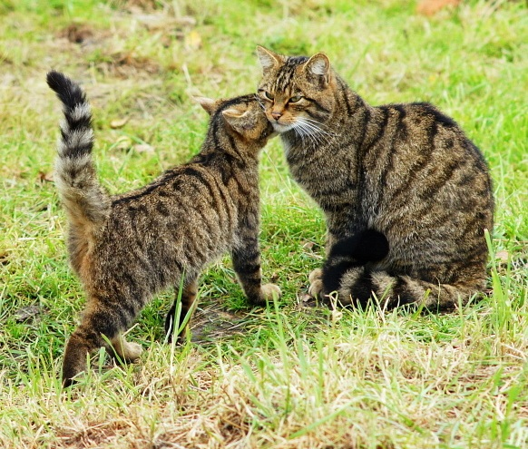 'Kendra', with one of her kittens. Photographed at the British Wildlife Centre, Newchapel, Surrey.